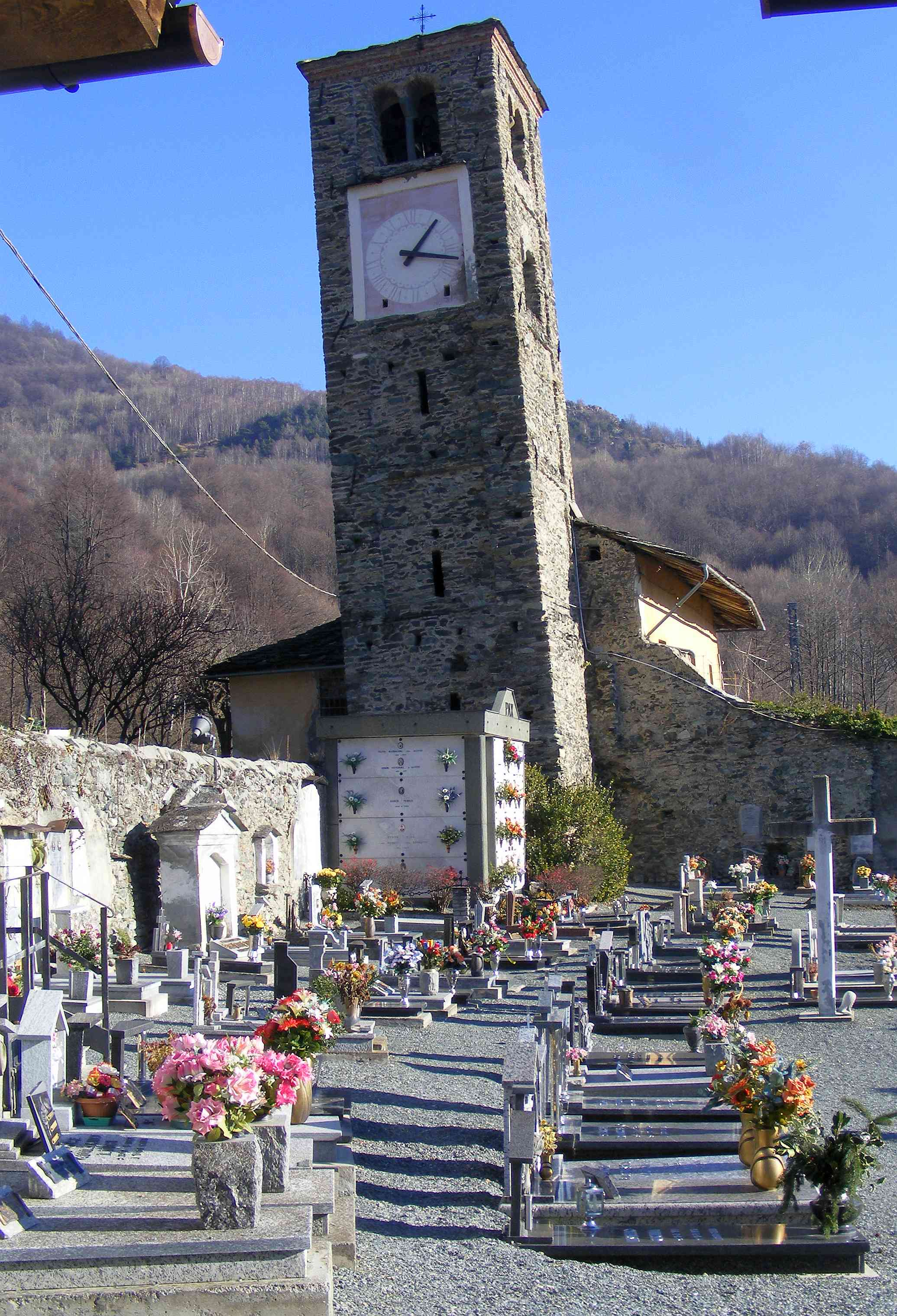 Mocchie (Condove, TO, Italy): medioeval church tower